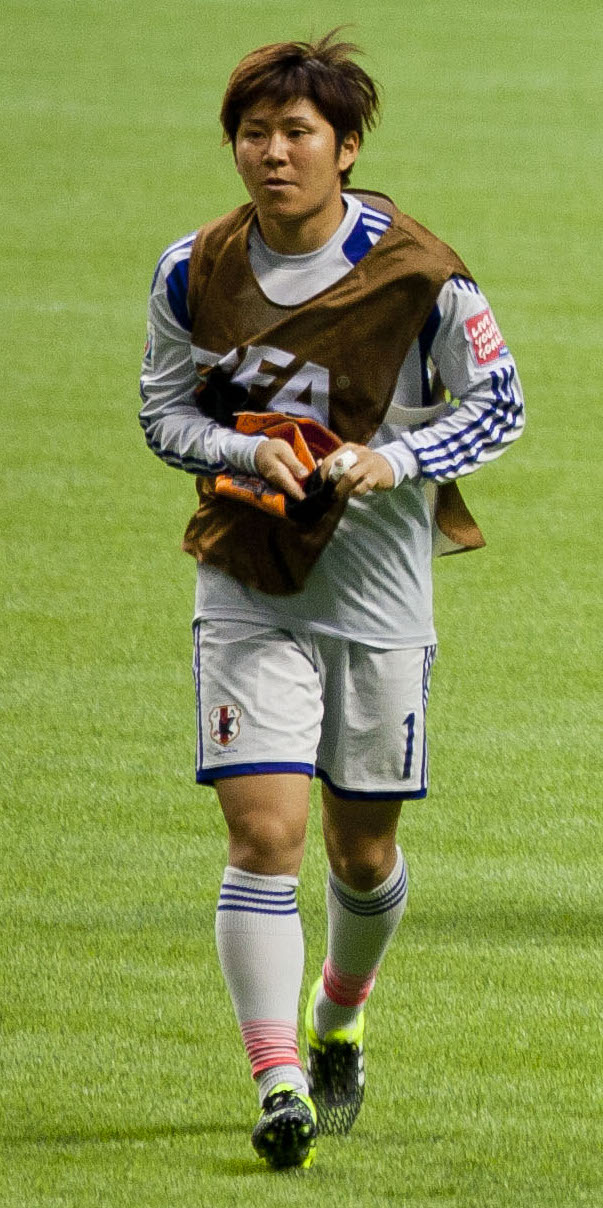 FIFA Women's World Cup Canada June 12th, 2015